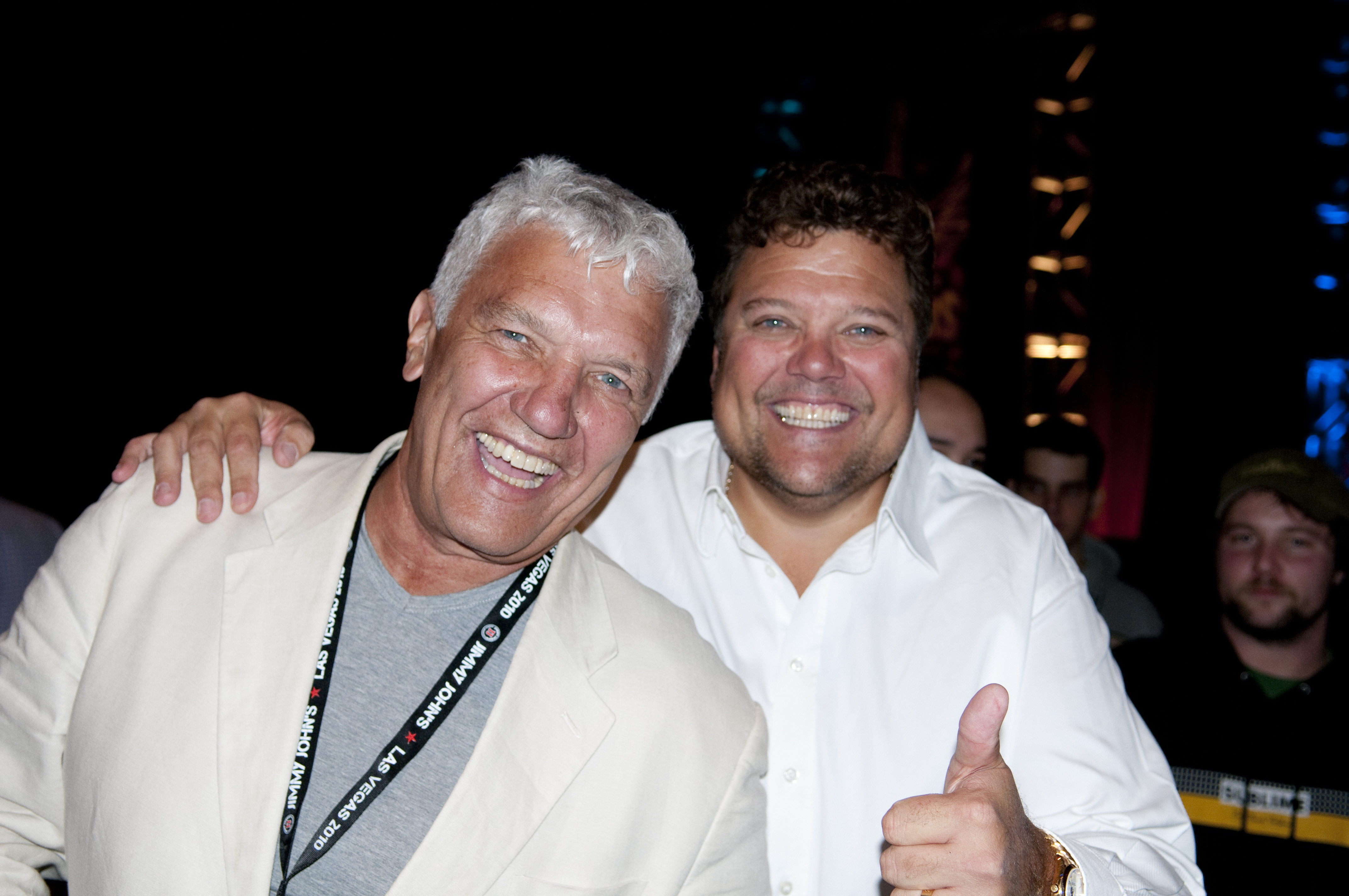 James P. Liautaud with his son, Jimmy John's owner Jimmy John Liautaud. This picture was taken at a Jimmy John's Convention.